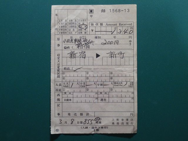 Ticket From Shinhuku to Shinmachi by 855M conductor